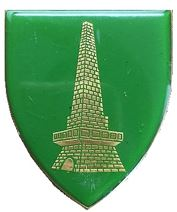 SADF era Krugersdorp Commando emblem